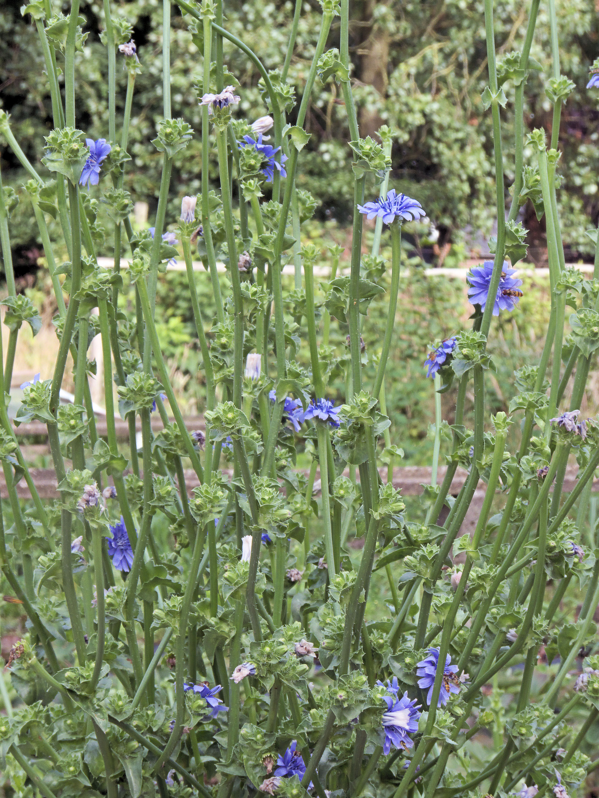 Cichorium endivia flowers